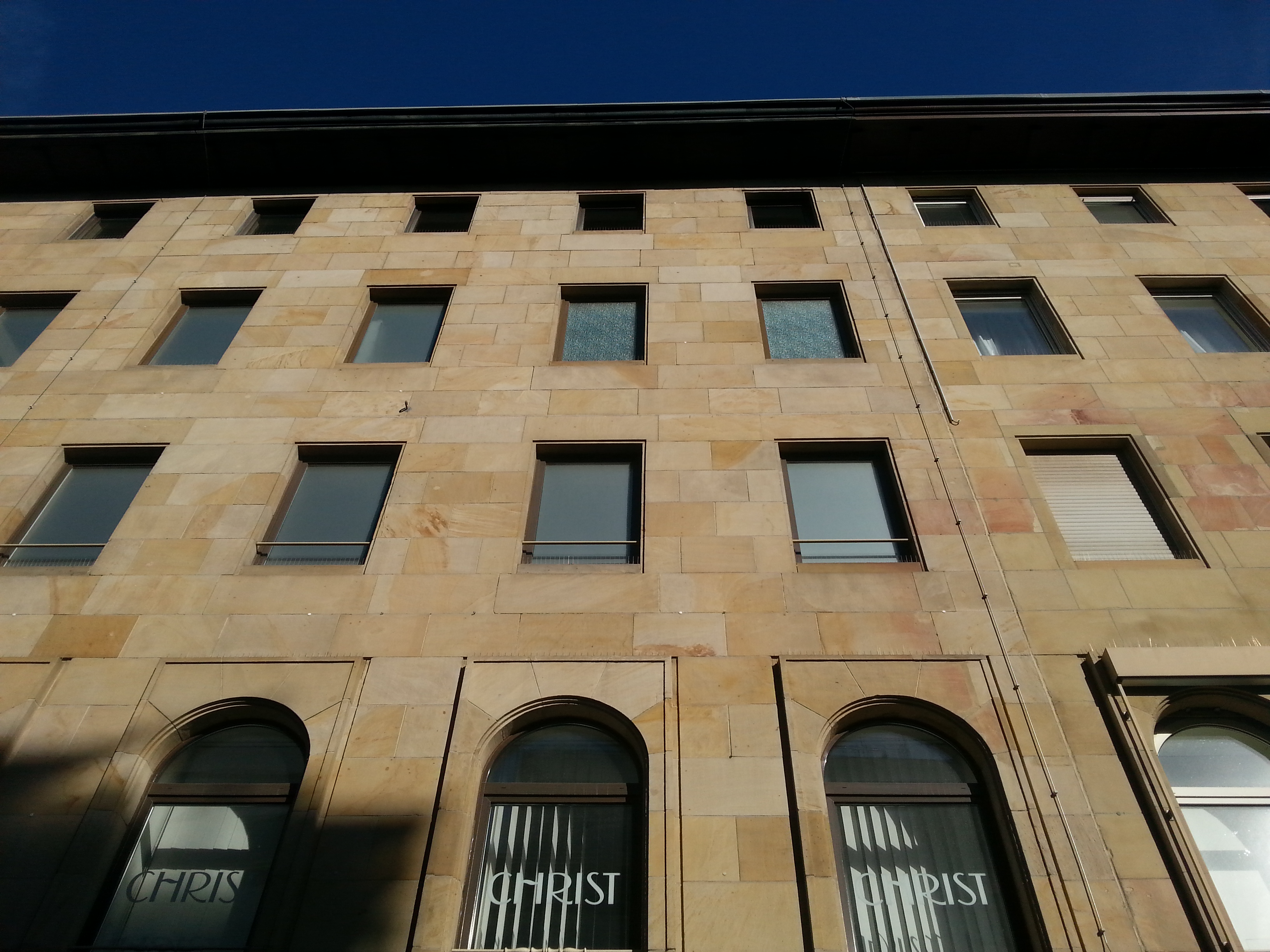 P5 in Mannheim, designed by Josef Zizler and built from 1935 to 1936.